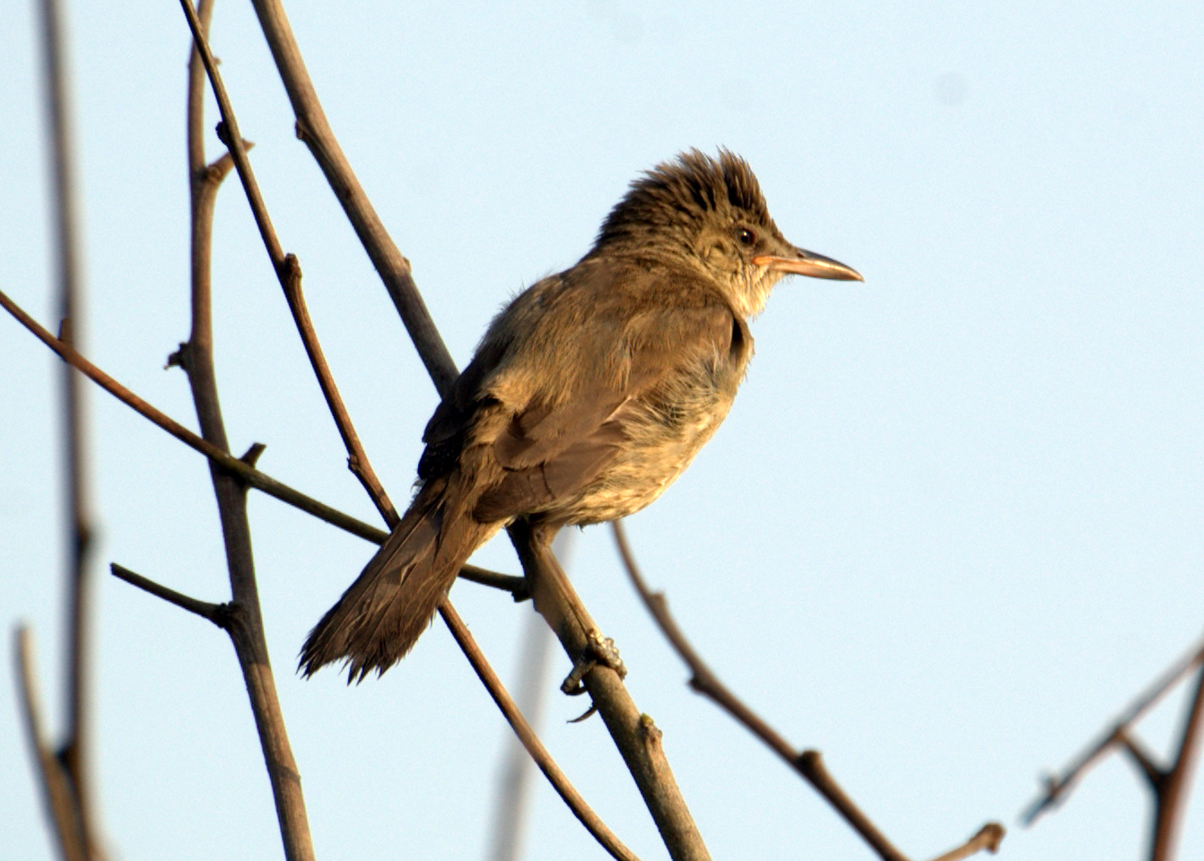 Clamorous Reed Warbler Acrocephalus stentoreus